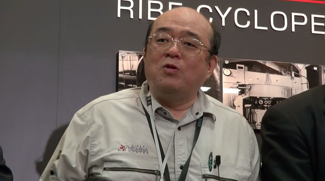 Kōsuke Morita, Professor of the Faculty of Science, Kyushu University, attended the press conference at Nishina Center for Accelerator-Based Science, Riken in Wakō City, Saitama Prefecture on June 9, 2016.